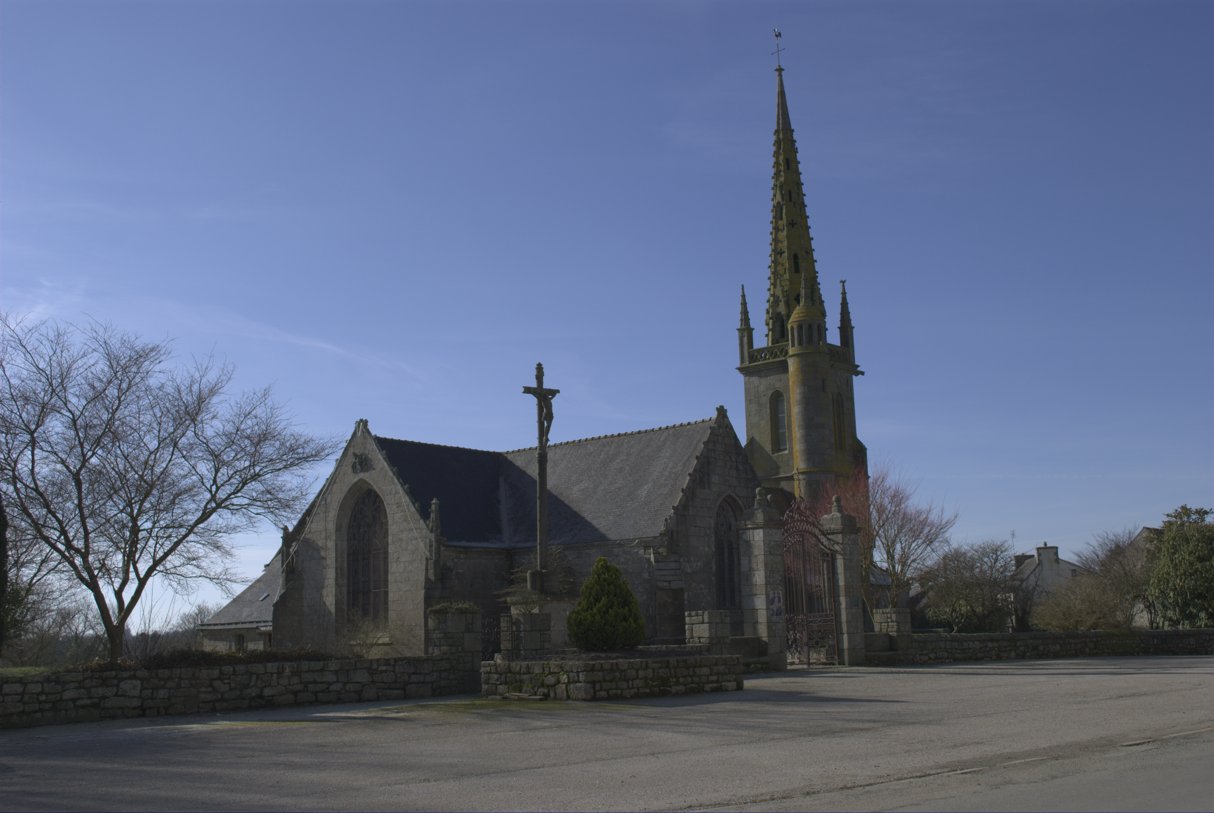 Church of Saint-Laurent in the village of Maël-Pestivien (France).